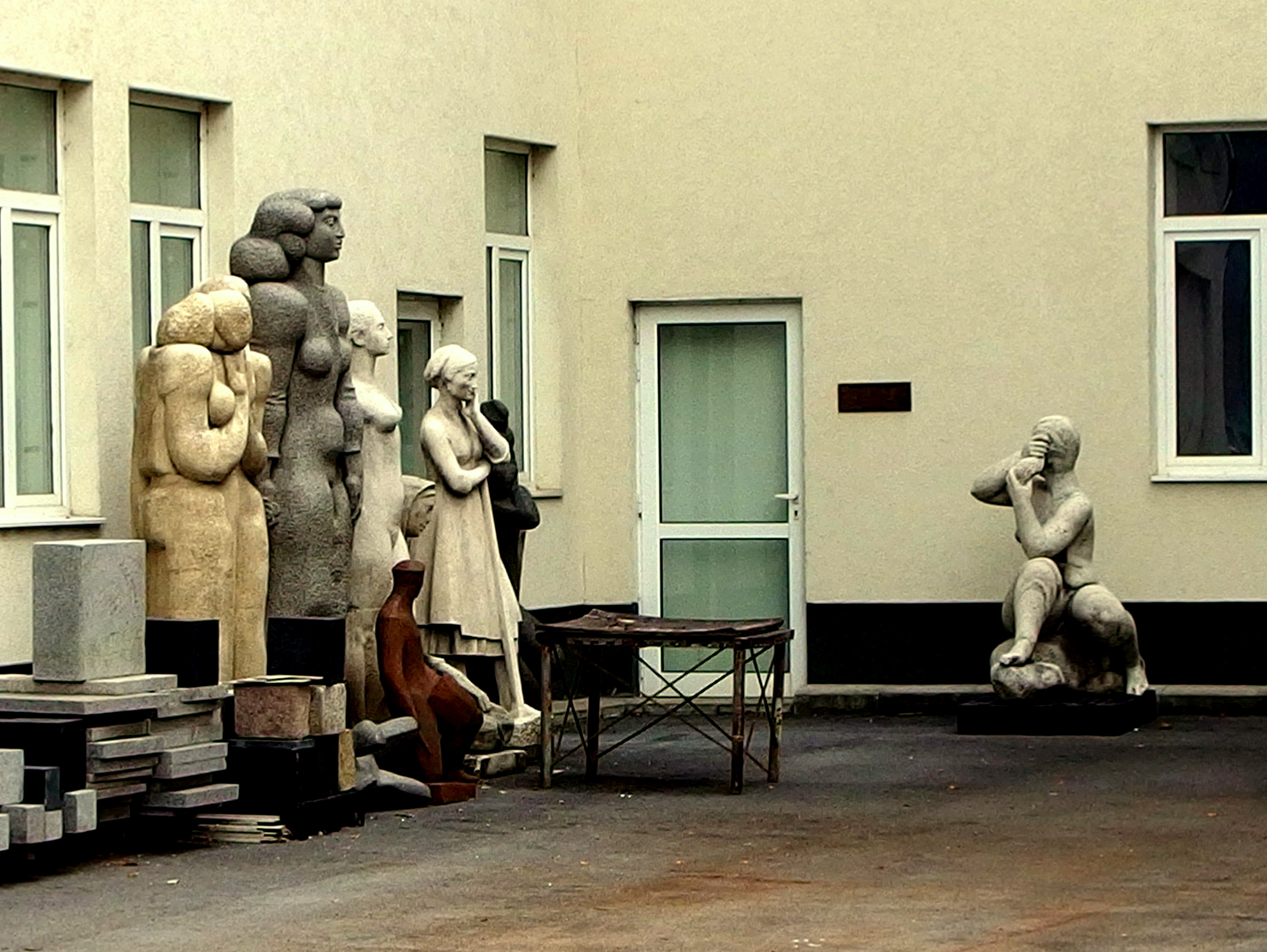 2014-06-15 in the Museum of socialist art (Sofia).